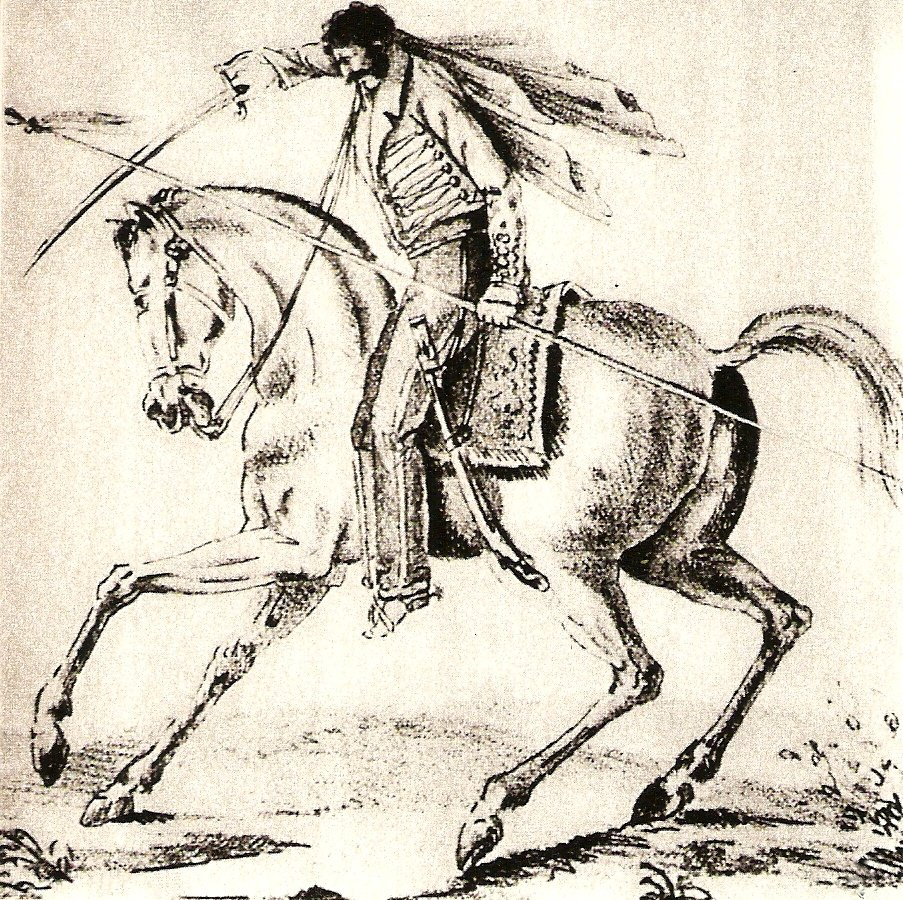 Juan Facundo Quiroga, named "Tigre de los Llanos", leader of the La Rioja's people.